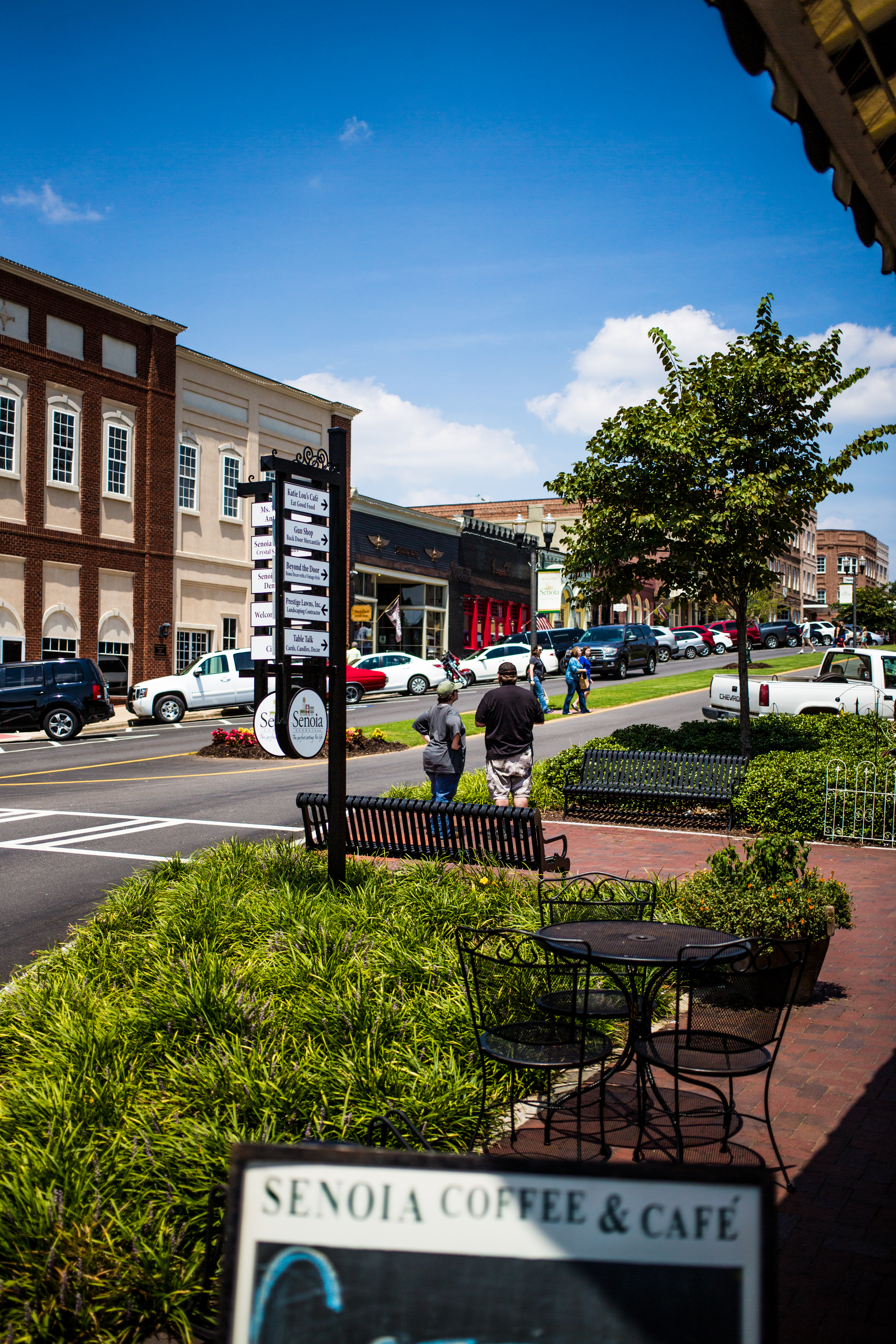 Downtown Senoia, Georgia, USA, used as the setting for the Woodbury community in the TV show The Walking Dead